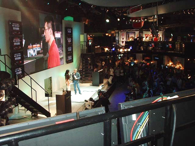 The Ninja Gaiden Master Tournament World Championship proceeding on at Tokyo Game Show 2004. Itagaki and commentators on stage with large screen TV over them showing contestant (maruyo), finalists are playing in front of the TECMO sign in the top right background